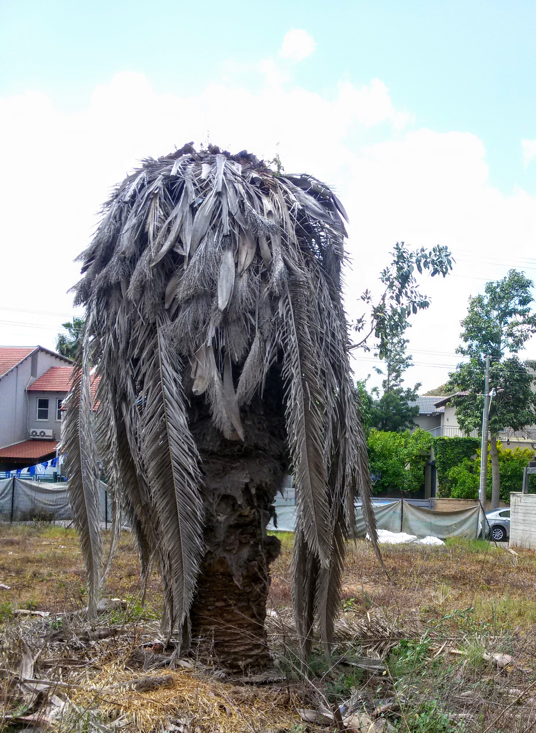 A date palm that was killed by Rhynchophorus ferrugineus (red palm weevil), in Kfar Saba, Israel.